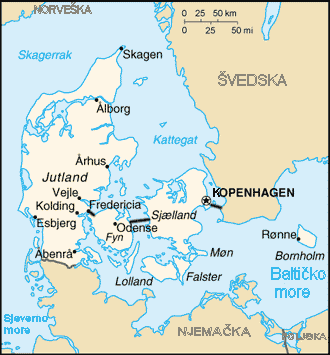 Map of Denmark with the locations of major cities and bridges.